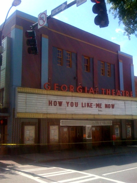 Georgia Theatre, Athens, Georgia, USA